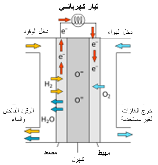 Diagram of Solid Oxide Fuel Cell in Arabic